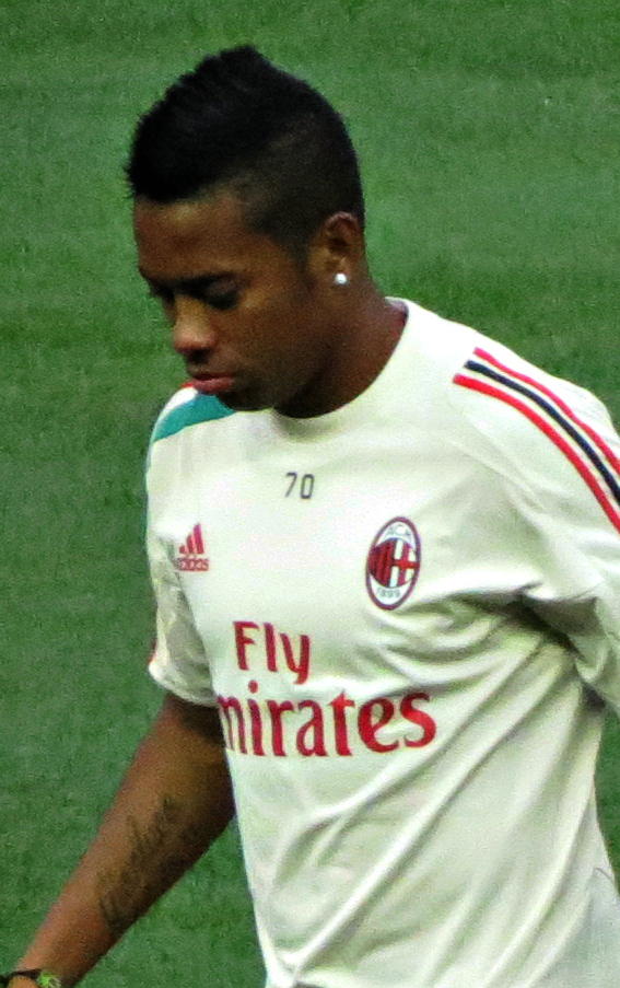 Robinho and Massimo Ambrosini at Yankee Stadium.